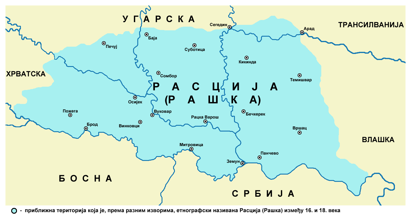 Approximate territory that, according to various sources, was ethnographically named Rascia (Raška, Racszag, Ráczország, Ratzenland, Rezenland) between 16th and 18th century.